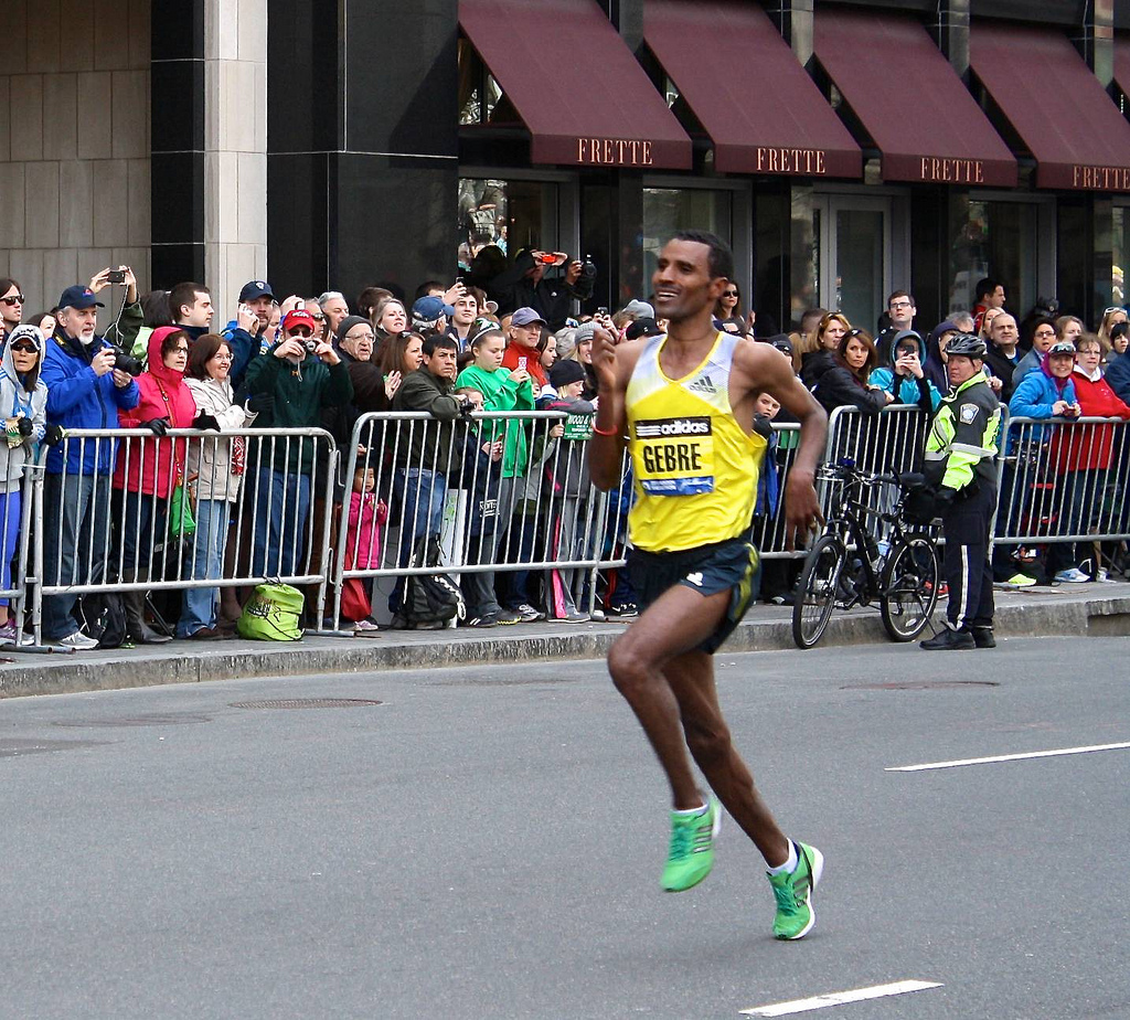 Copyright © 2013 Sonia Su. Boston Marathon.